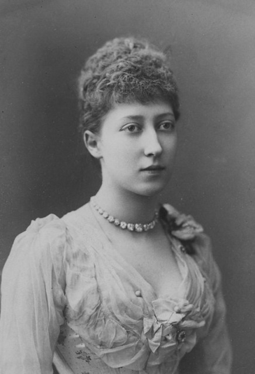 Louise, Princess Royal (1867-1931)